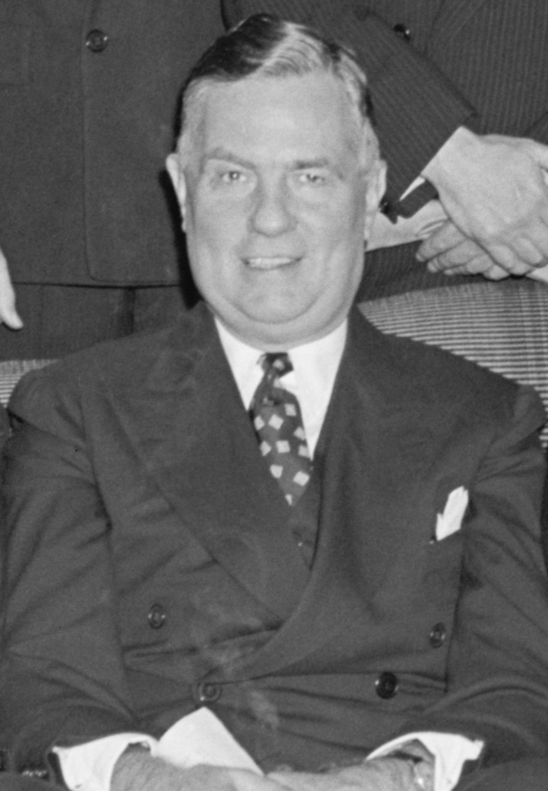 Edward J. Noble, Undersecretary of Commerce, at the Conference of Latin American retailers. Washington, D.C., Nov. 1., 1939, where representatives of Latin-American governments and United States retailers met today under auspices of the Commerce Department to seek means of increasing western hemisphere trade.